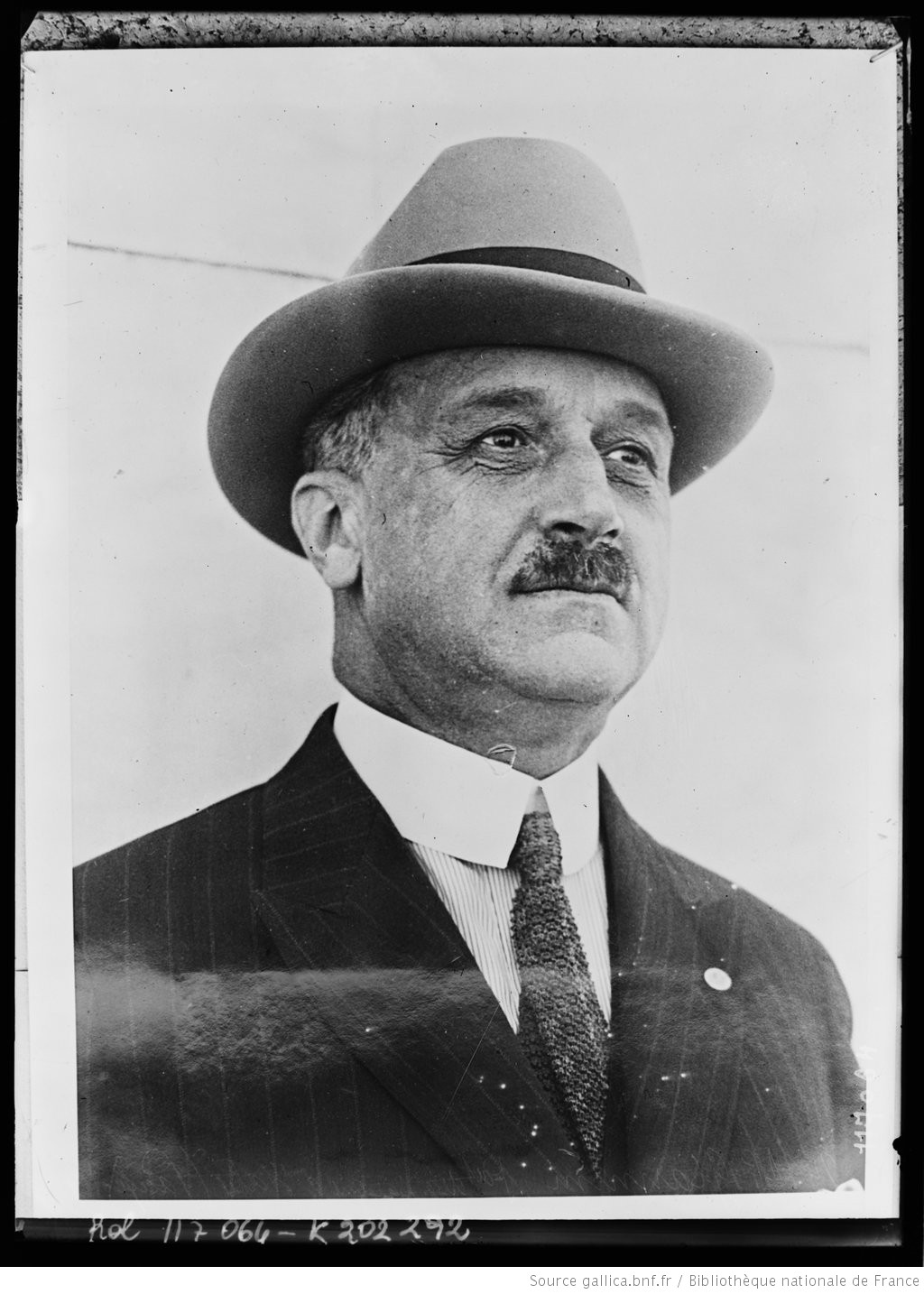 Title : M. A. P. Giannini, président de la Banque d'Italie [à San Francisco] (Pacific) : [photographie de presse] / [Agence Rol] Author : Agence Rol. Agence photographique Publication date : 1927 Subject : Giannini, Amadeo Pietro (1870-1949) -- Portraits Subject : Portraits -- 1914-1945 Type : image Type : still image Type : photograph Language : french Language : français Format : 1 photogr. nég. sur verre ; 18 x 13 cm (sup.) Format : image/jpeg Format : Nombre total de vues : 1 Description : Référence bibliographique : Rol, 117064 Description : Collection numérique : Photographies de l'Agence Rol Description : Image de presse Rights : public domain Identifier : ark:/12148/btv1b53177256k Source : Bibliothèque nationale de France, département Estampes et photographie, EI-13 (1407) Cover : .. mars 1927 Relationship : Provenance : Bibliothèque nationale de France Date of online availability : 22/10/2018